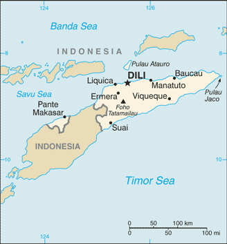 New map of Timor-Leste from the CIA World Factbook - 24 July 2008 edition